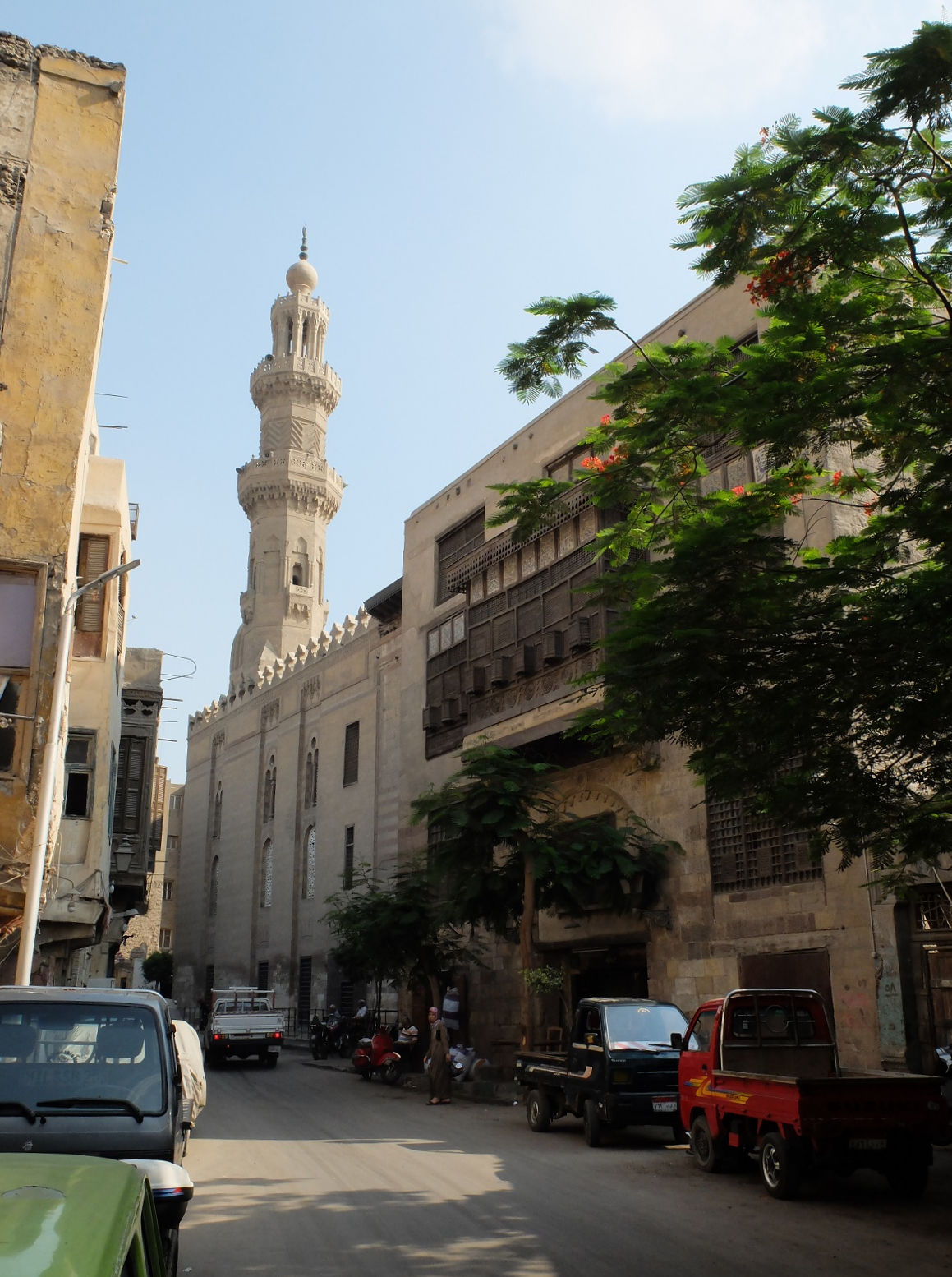 View of Bayt al-Razzaz and the minaret of the Madrasa of Umm Sha'ban, on Darb al-Ahmar street in Cairo.